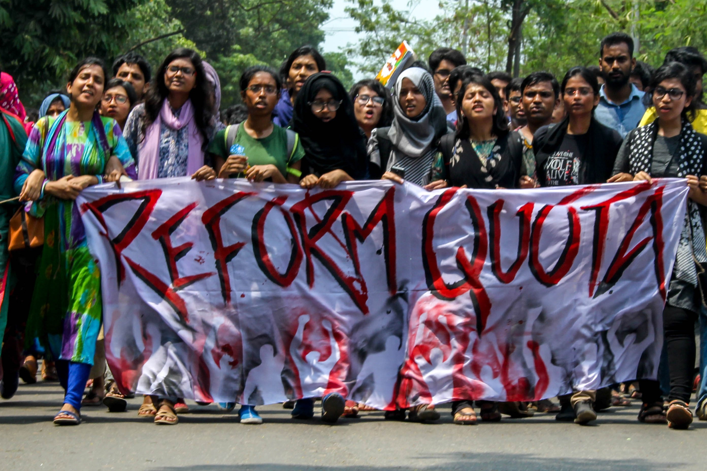 Students of Bangladesh University of Engineering and Technology protesting to reform quota system in government service.